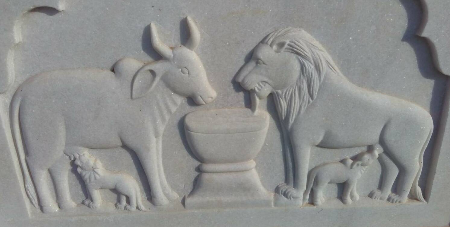 Sculpture depicting Jainism's message: Ahinsa Parmo Dharma (Non-injury is the supreme duty/virtue/religion)